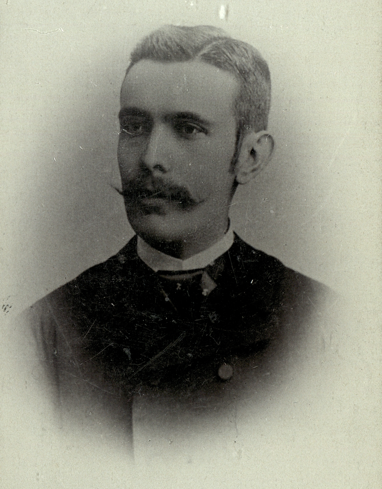 Vatroslav Oblak (1864-1896), slovene linguist.